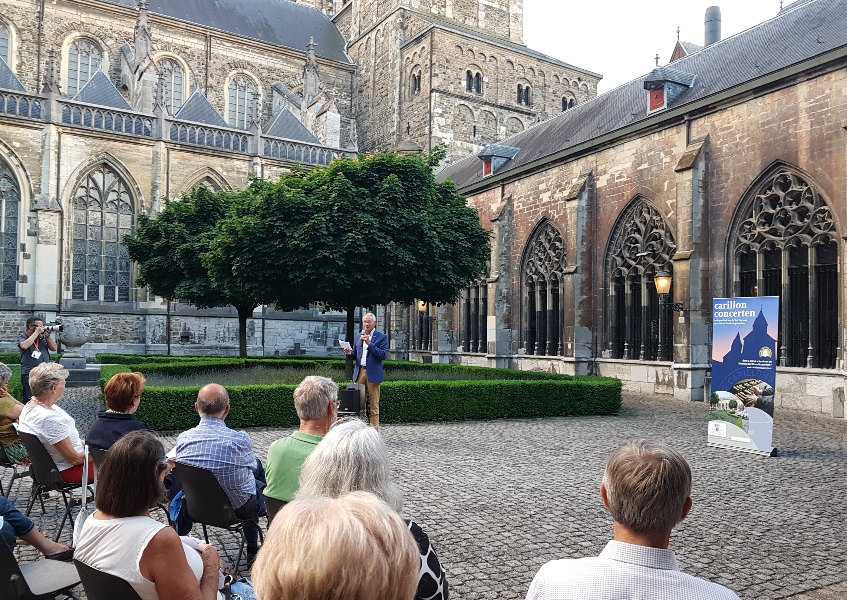 Listening to a carillon concert in the cloister yard of the Basilica of Saint Servatius in Maastricht, Netherlands. The concert was one of many activities during the 2018 Heiligdomsvaart ("Relics Pilgrimage"). It was also the last concert organized by Stichting Carillons Maastricht. The history of the seven-yearly Heiligdomsvaart goes back to the Middle Ages. The first 'modern' version of this ten-day catholic pilgrimage took place in 1874. The 2018 Heiligdomsvaart was the 55th modern edition.